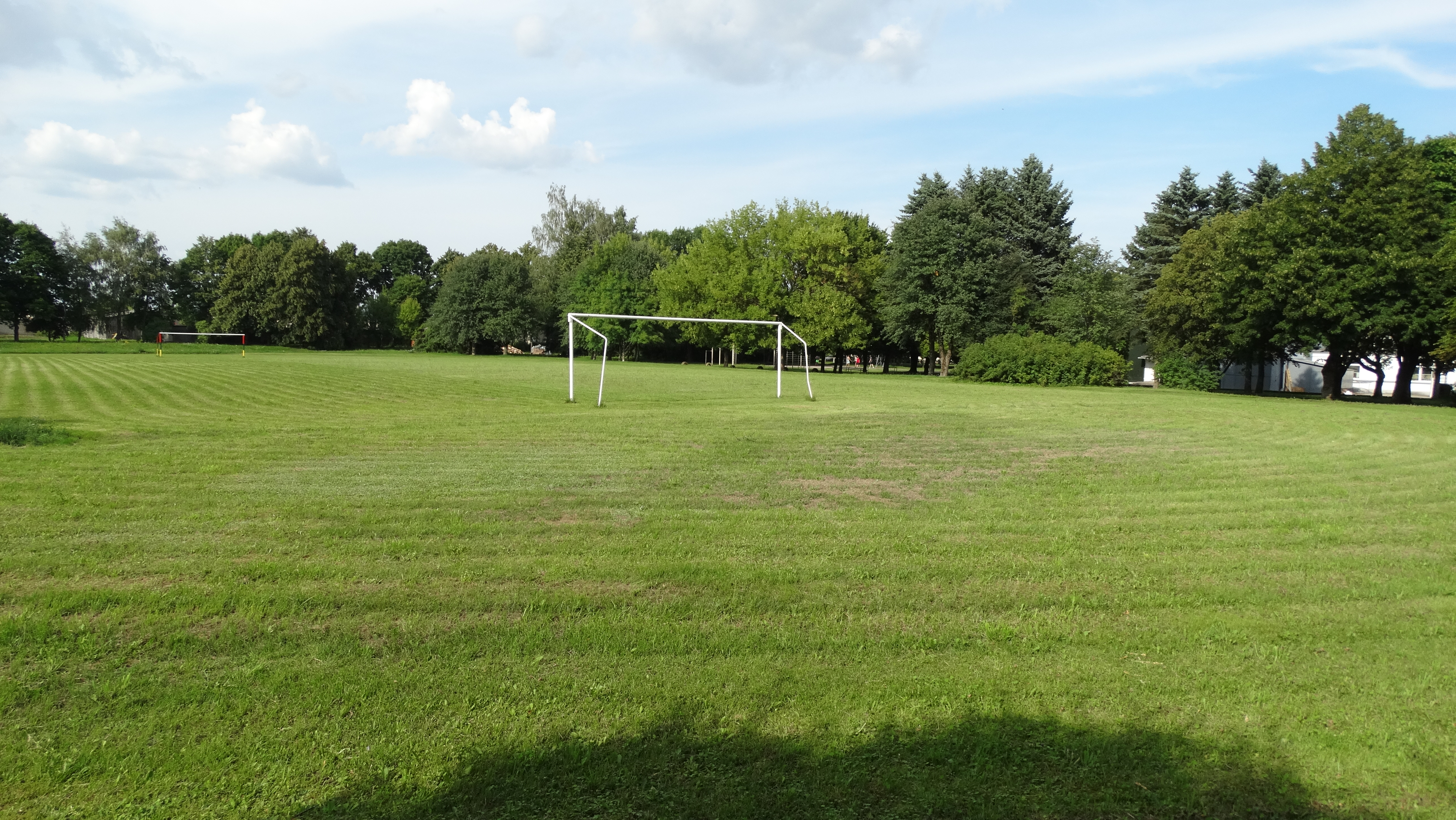 School stadium, Dainava, Ukmergė District, Lithuania